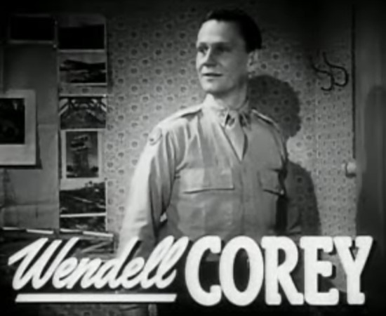 Cropped screenshot of Wendell Corey from The Search.